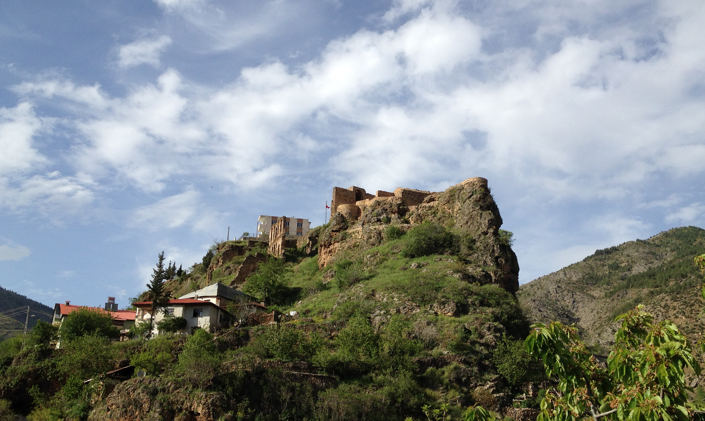 From Eyuplu St., a southwestern view of Saimbeyli Castle. Saimbeyli - Adana, Turkey.